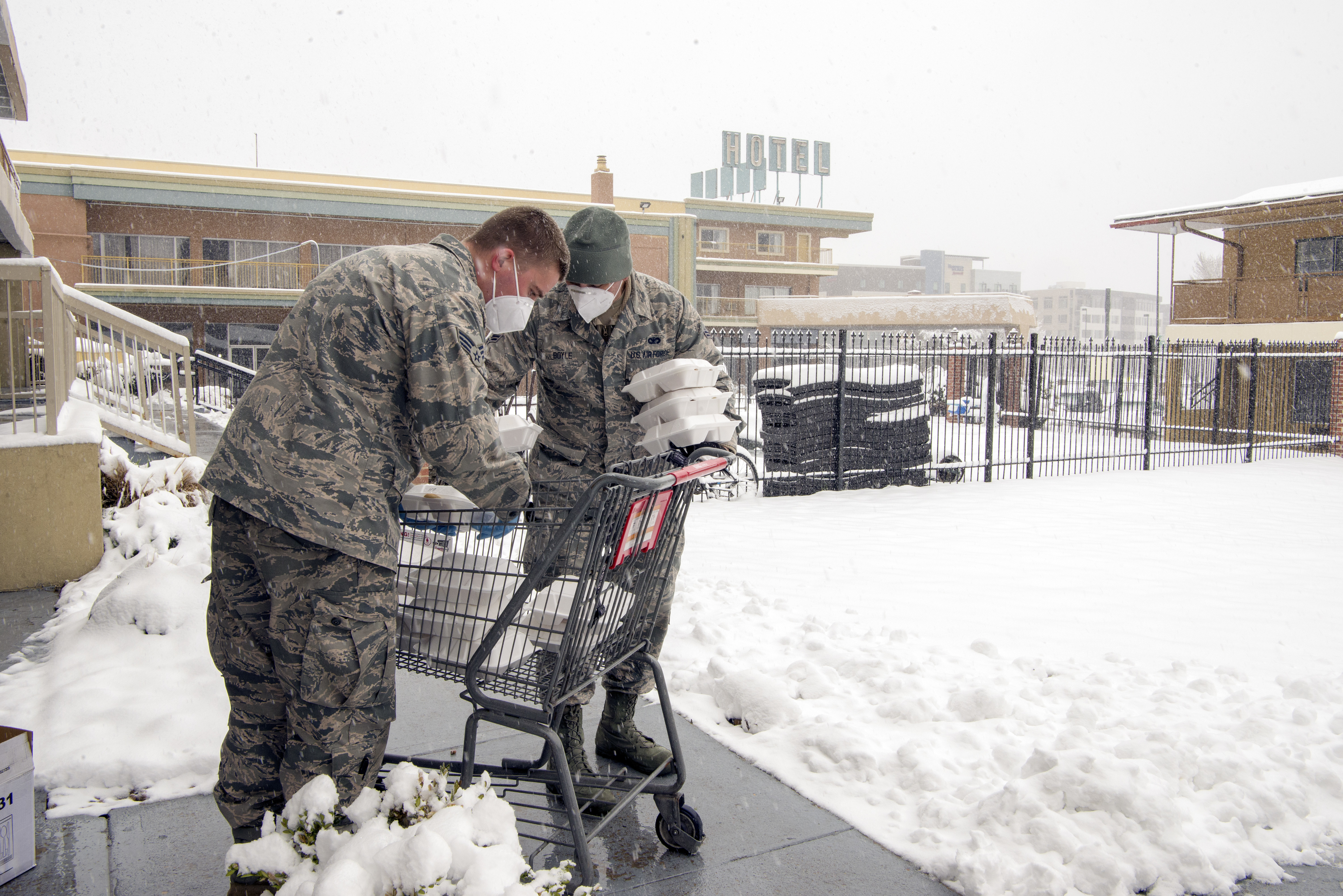 U.S. Air Force Senior Airman Konnor Ewing, a 140th Wing, Colorado Air National Guard aircraft structural maintenance mechanic, and Airman 1st Class John Boyle, 233rd Space Group security forces specialists in Greeley Colo., deliver meals to guests at a hotel in Denver, April 16, 2020. Members of the Colorado National Guard have been brought on to serve in one of a multitude of task forces including helping those who otherwise would not have a place to stay during COVID 19. Troops are deployed around the state in various capacities to support state and local officials combat the Corona Virus Pandemic. (U.S. Air National Guard photo by Senior Master Sgt. John Rohrer)